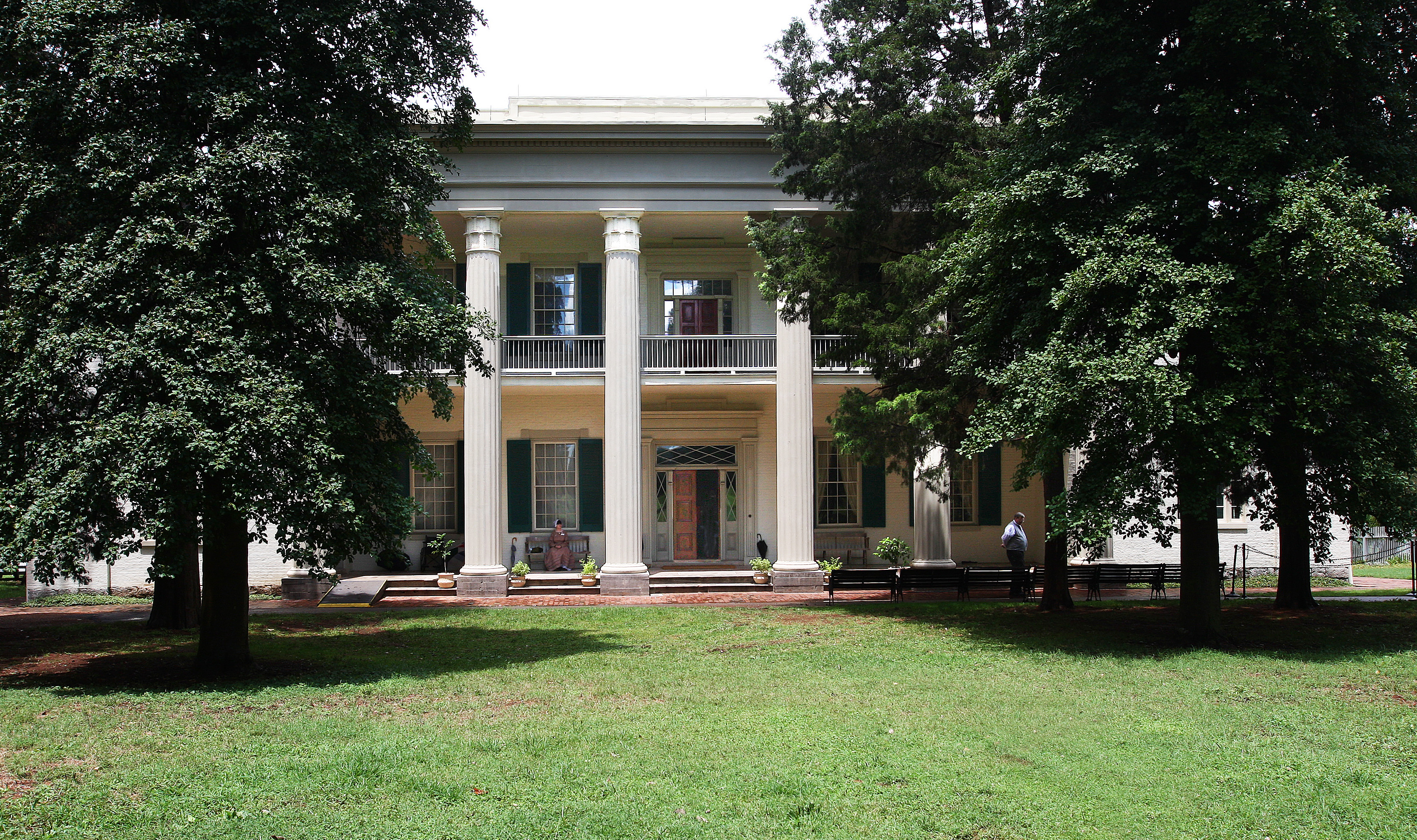 The self-guided tour at the Hermitage is well designed. Individuals are issued a set of headphones and a mp3 player. Each area of interest on the estate is numbered; thus, when a person is at a particular point of interest one only needs to enter the number into her/his player to receive information. This allows the visitor to skip any information or area she/she chooses. This is in contrast to similar tours which force visitors to take the entire tour in order to hear all of the information.